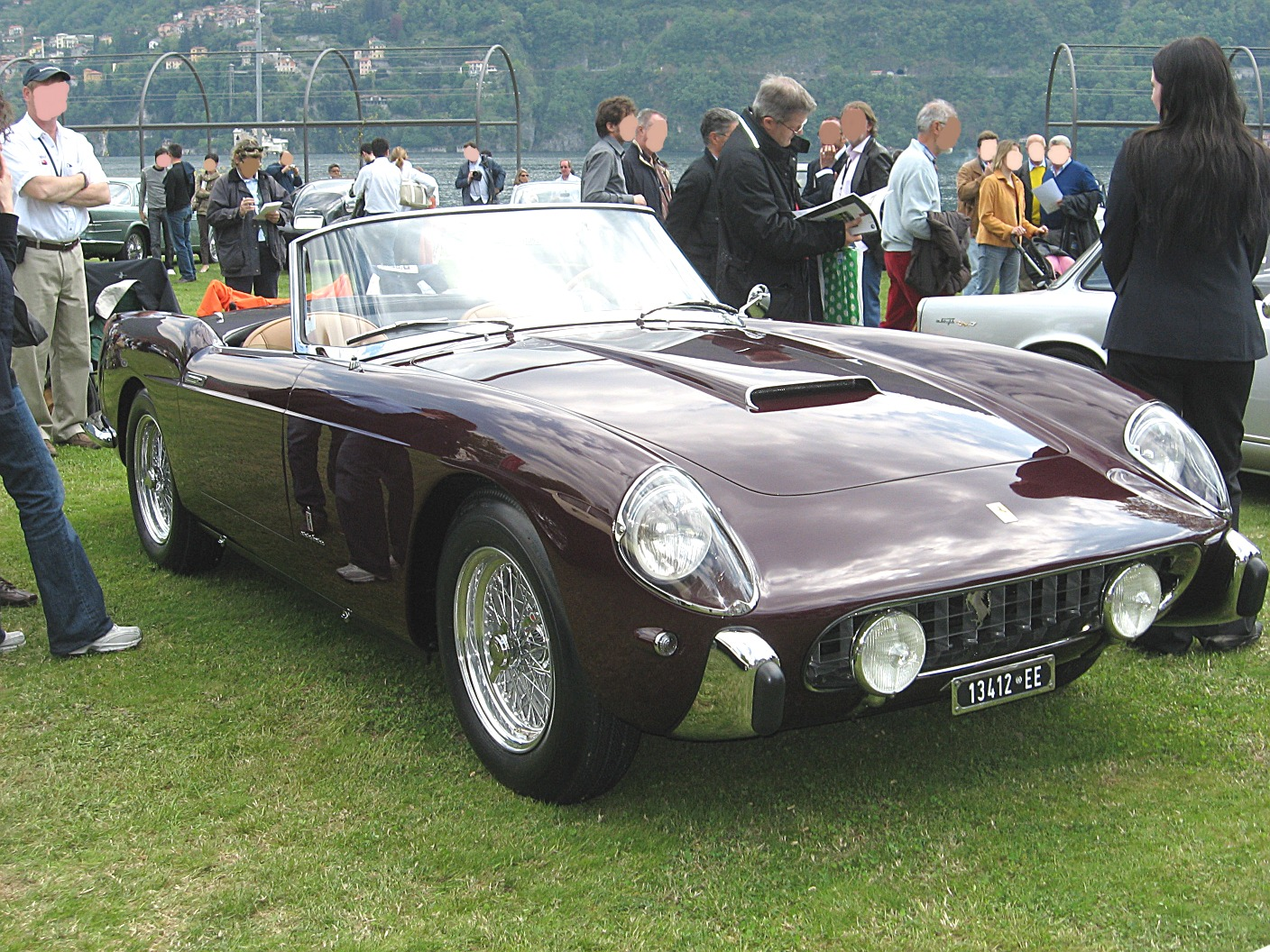 Subject:Ferrari 250 GT Spider (1958) Date:April 27th, 2008 Event:Concorso d’Eleganza”Villa d’Este” 2008 Place/Country: Cernobbio (CO), Italy I release all rights in the public domain.